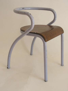 Jacques Hitier (Français, 1917-1999): Chaise Maternelle (School Chair), 1949, France.